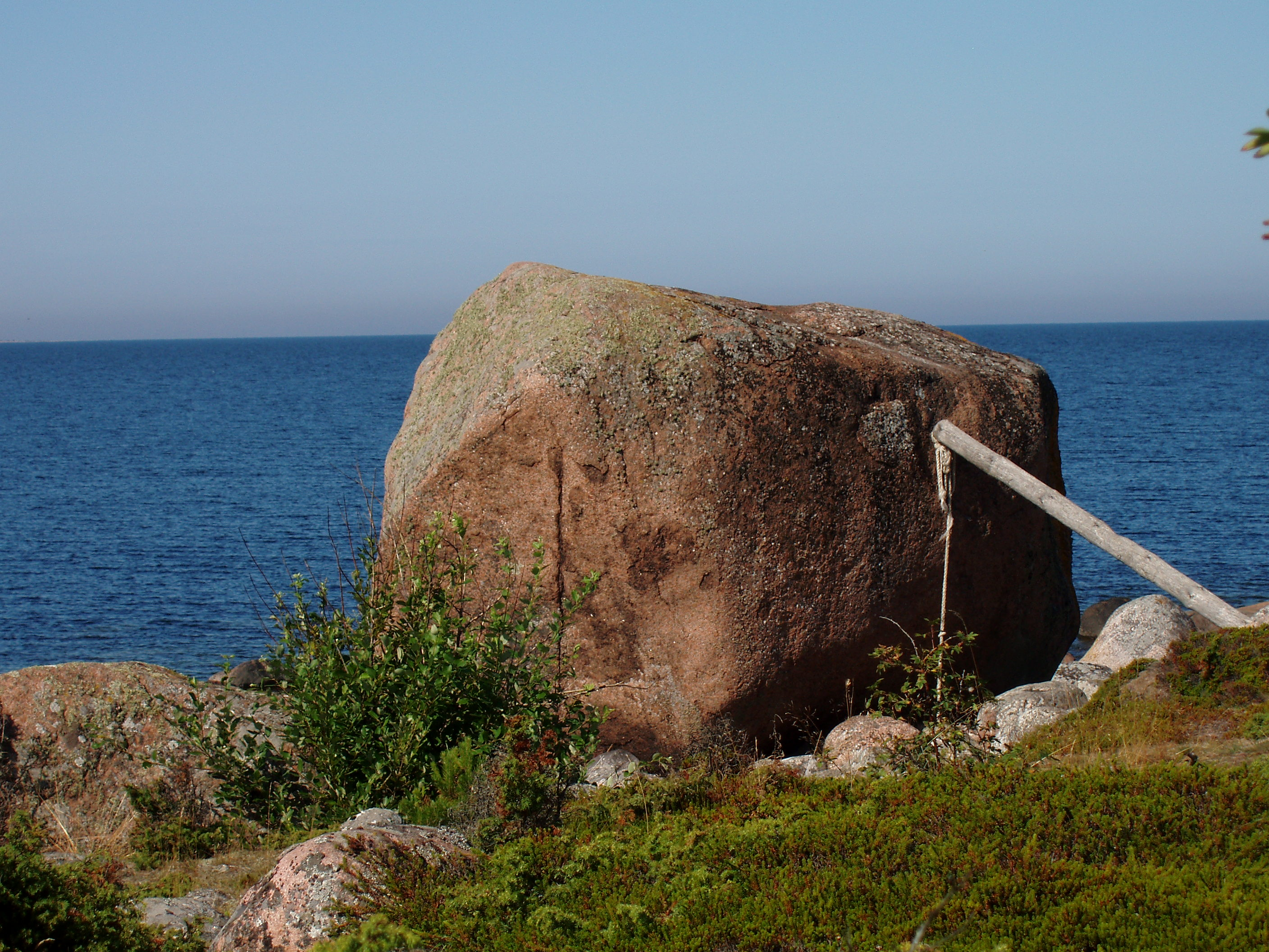 Jaanitule kivi -- boulder in an island Mohni.